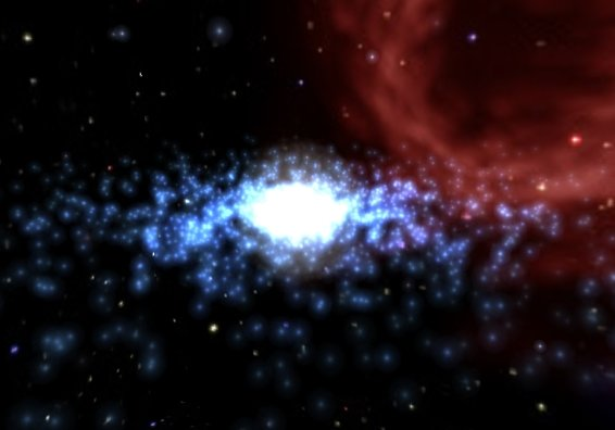 The image is created by me (John Tsiombikas), using my free-software 3D visualization system ( and placed in the public domain.